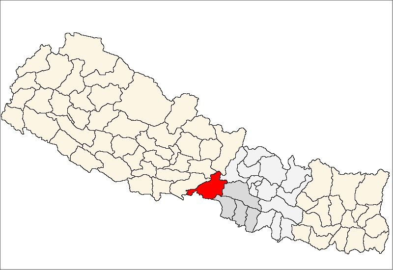 FrenchCarte de localisation dudistrict de Chitwan(wp-FR),au Népal (wp-FR).EnglishLocation map ofChitwan District(wp-EN),in Nepal (wp-EN).